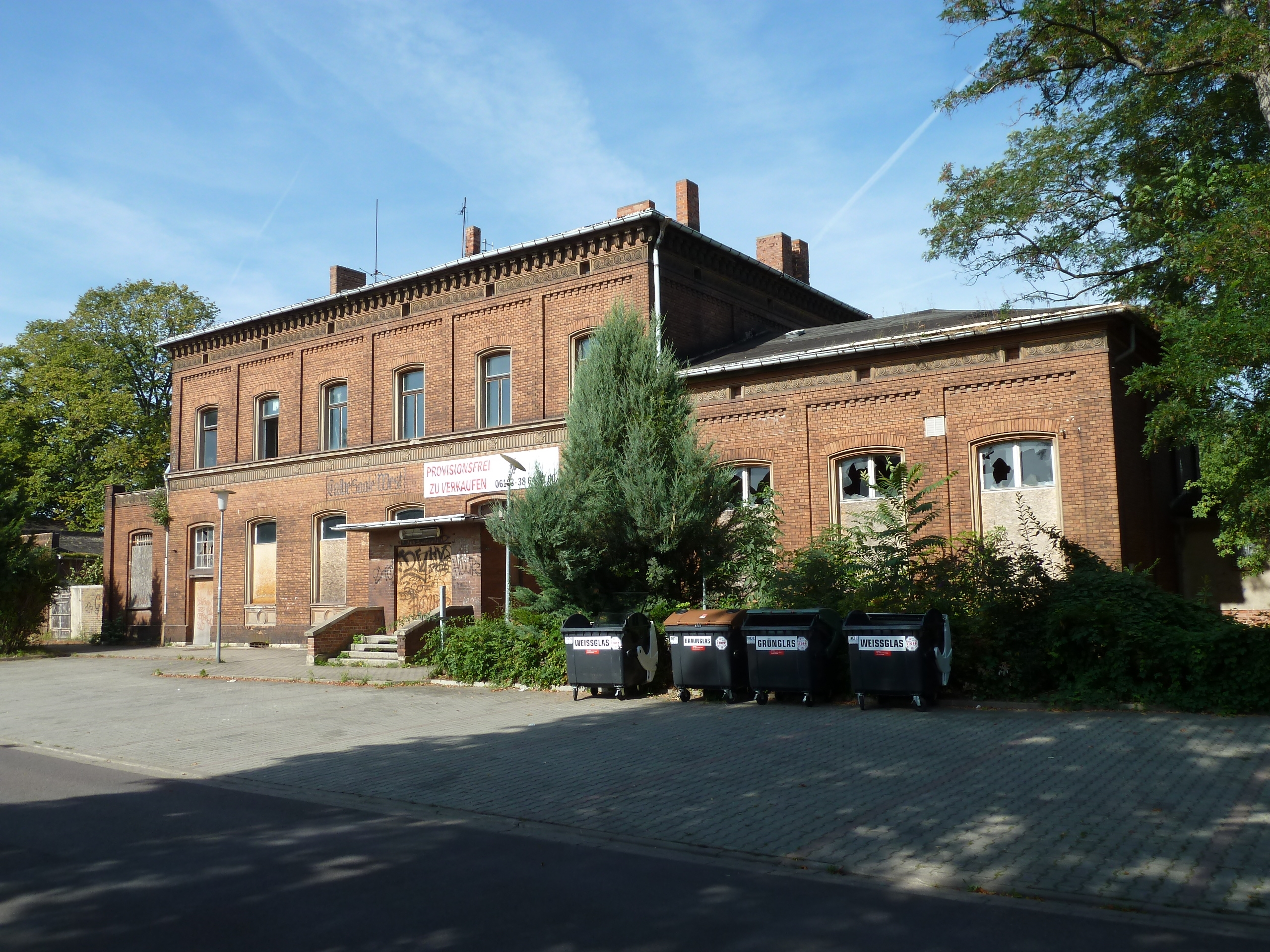 Train station Calbe (Saale) West, view from street side